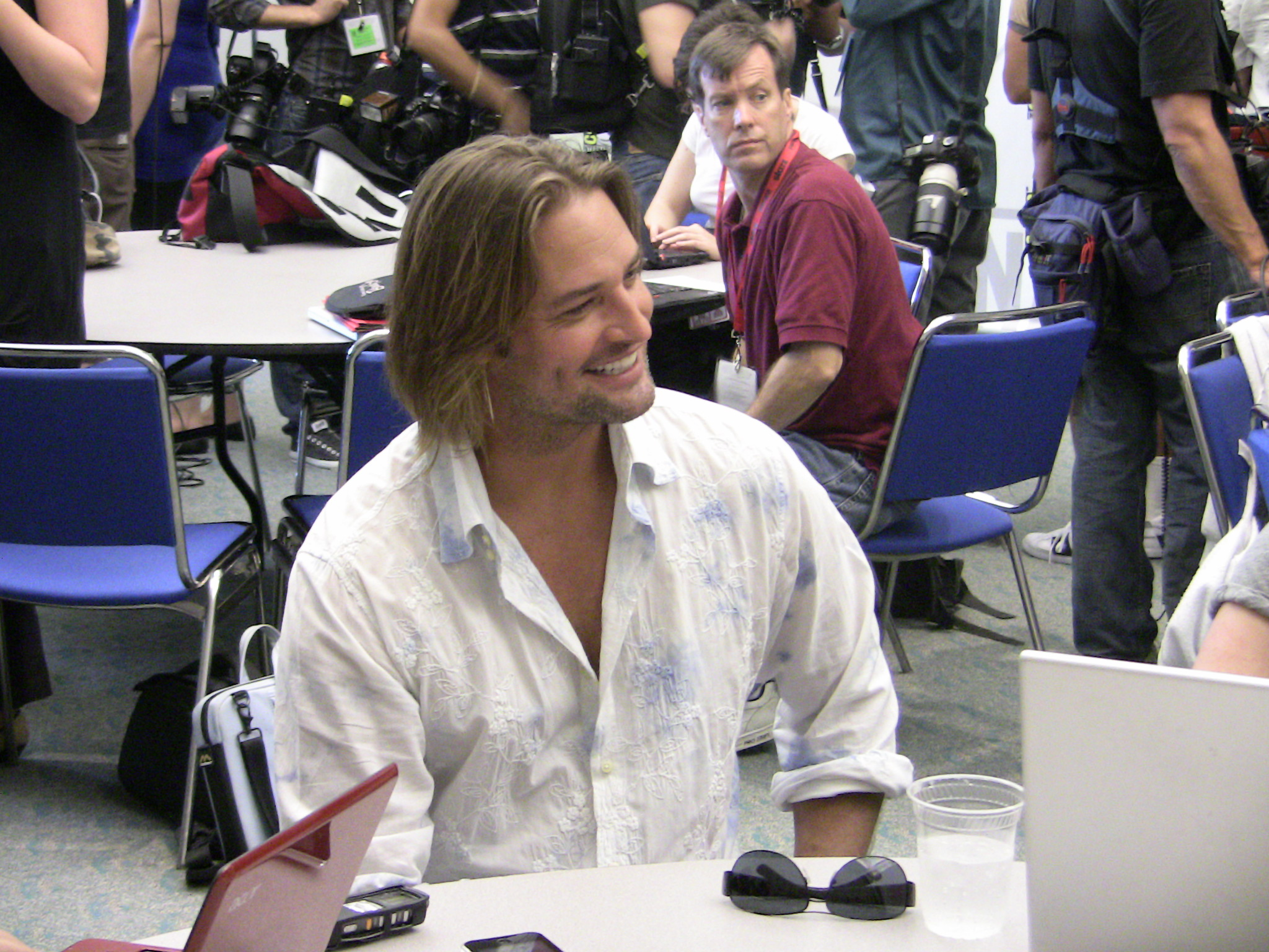 Josh Holloway